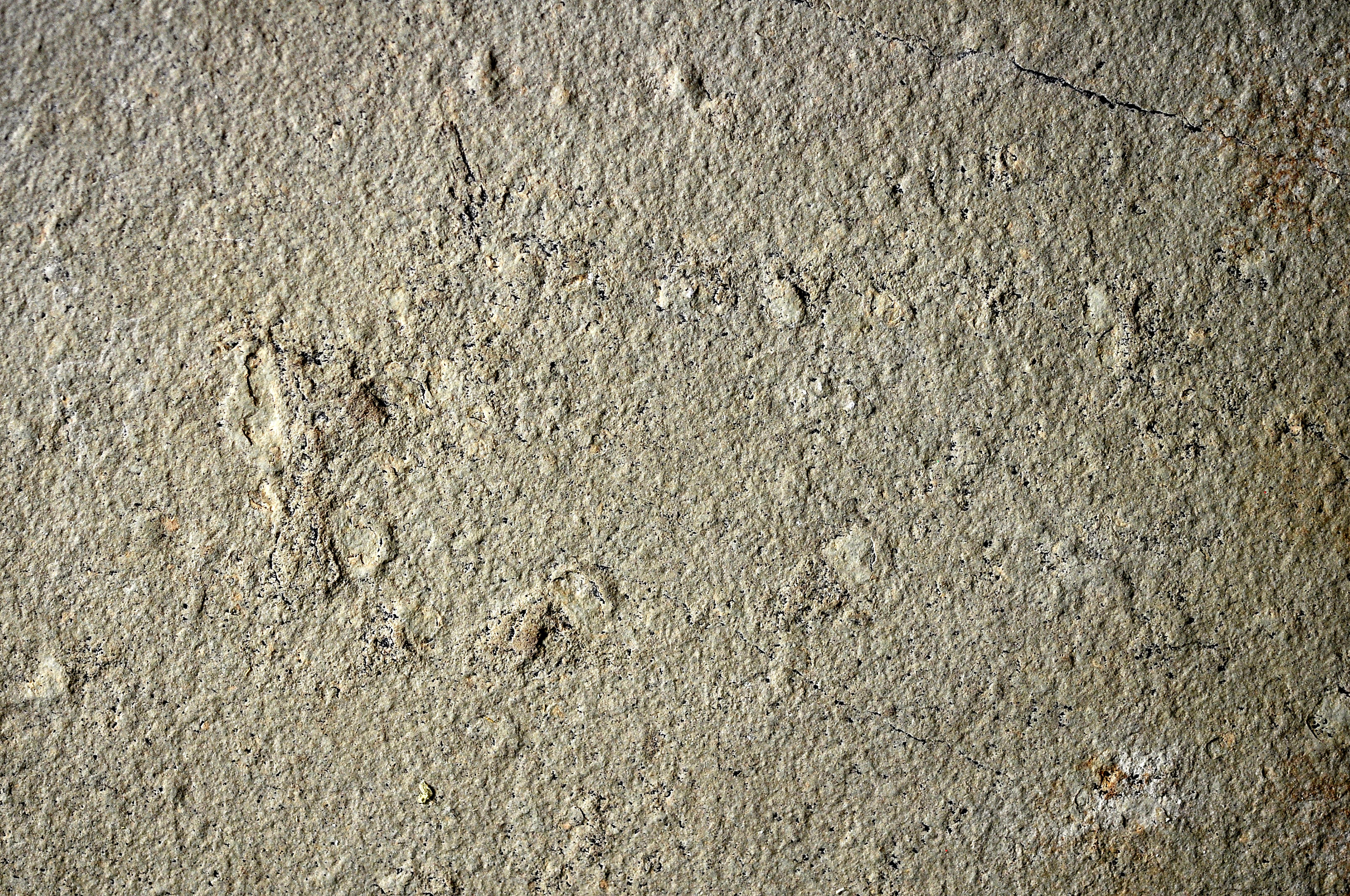 string of beads fossil Horodyskia moniliformis from the 1.4 Ga Appekunny Argillite in Glacier National Park, Montana